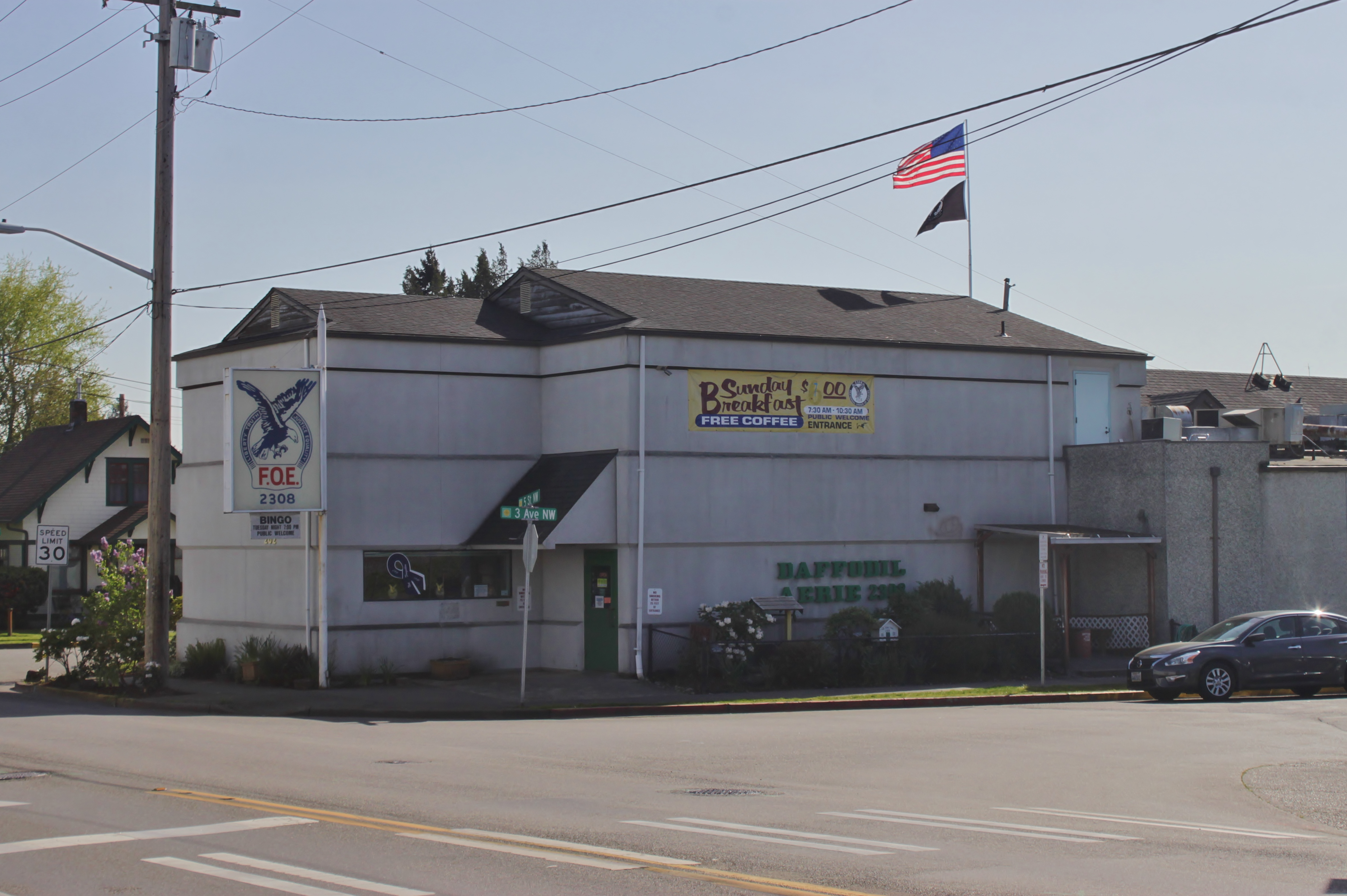 The Puyallup lodge of the Fraternal Order of Eagles, located in downtown Puyallup. The building is proposed to be demolished for a commuter parking garage due to its proximity to Puyallup station.